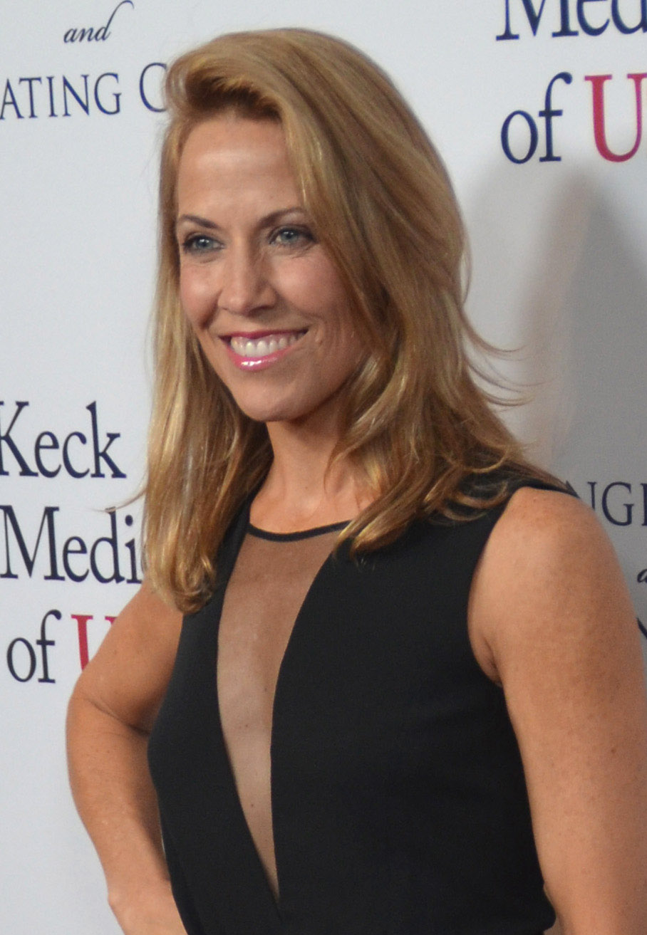 Sheryl Crow at the USC's Changing Lives and Creating Cures Gala at the Beverly Wilshire Hotel on November 20, 2014